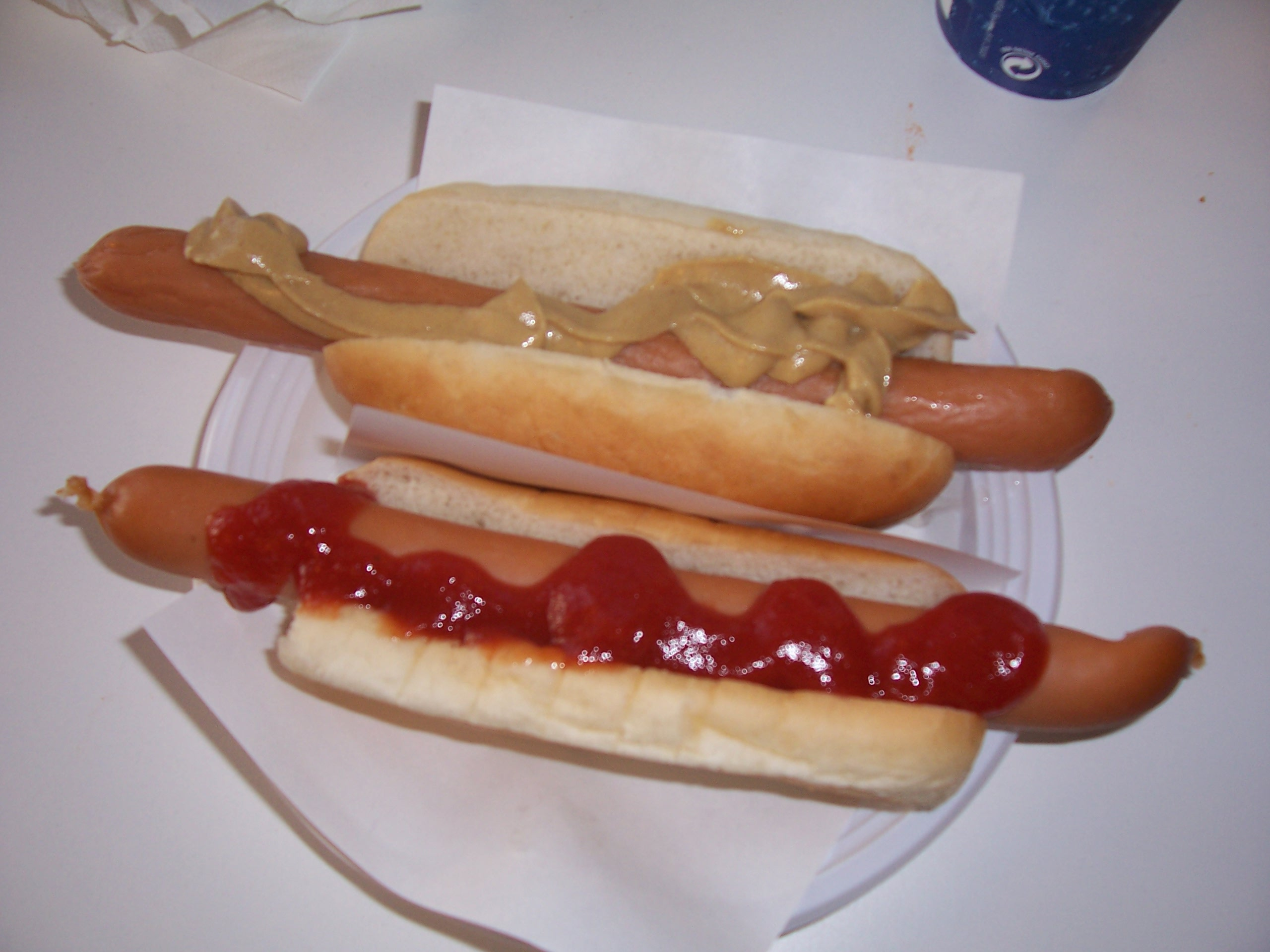 Hot dogs with ketchup and mustard